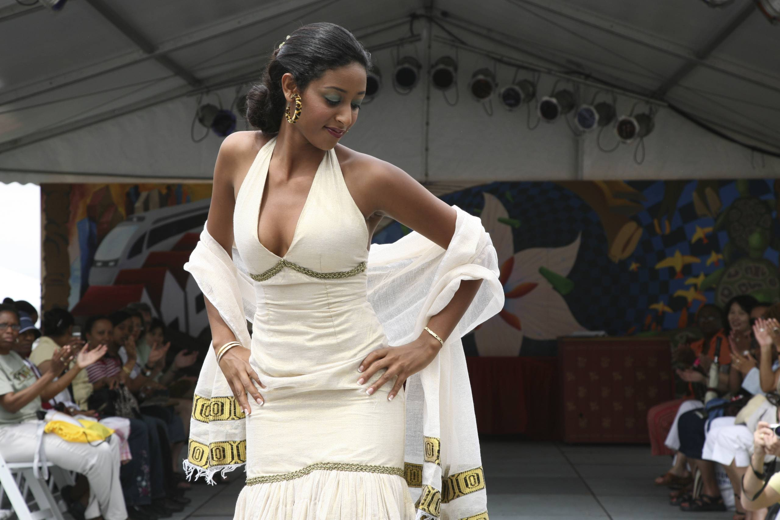 An Ethiopian model at the Ethiopian Fashion Show at the International Festival 2008.